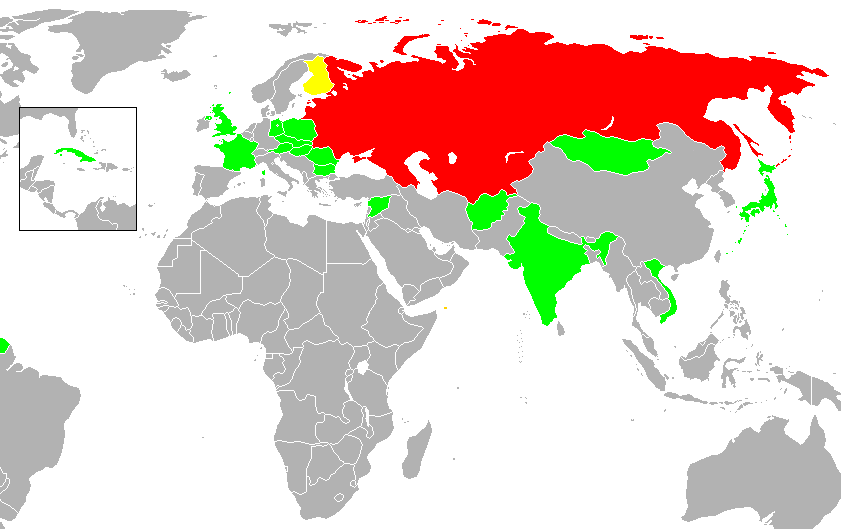 red – human spaceflight provider; green – participant; yellow – refused offer